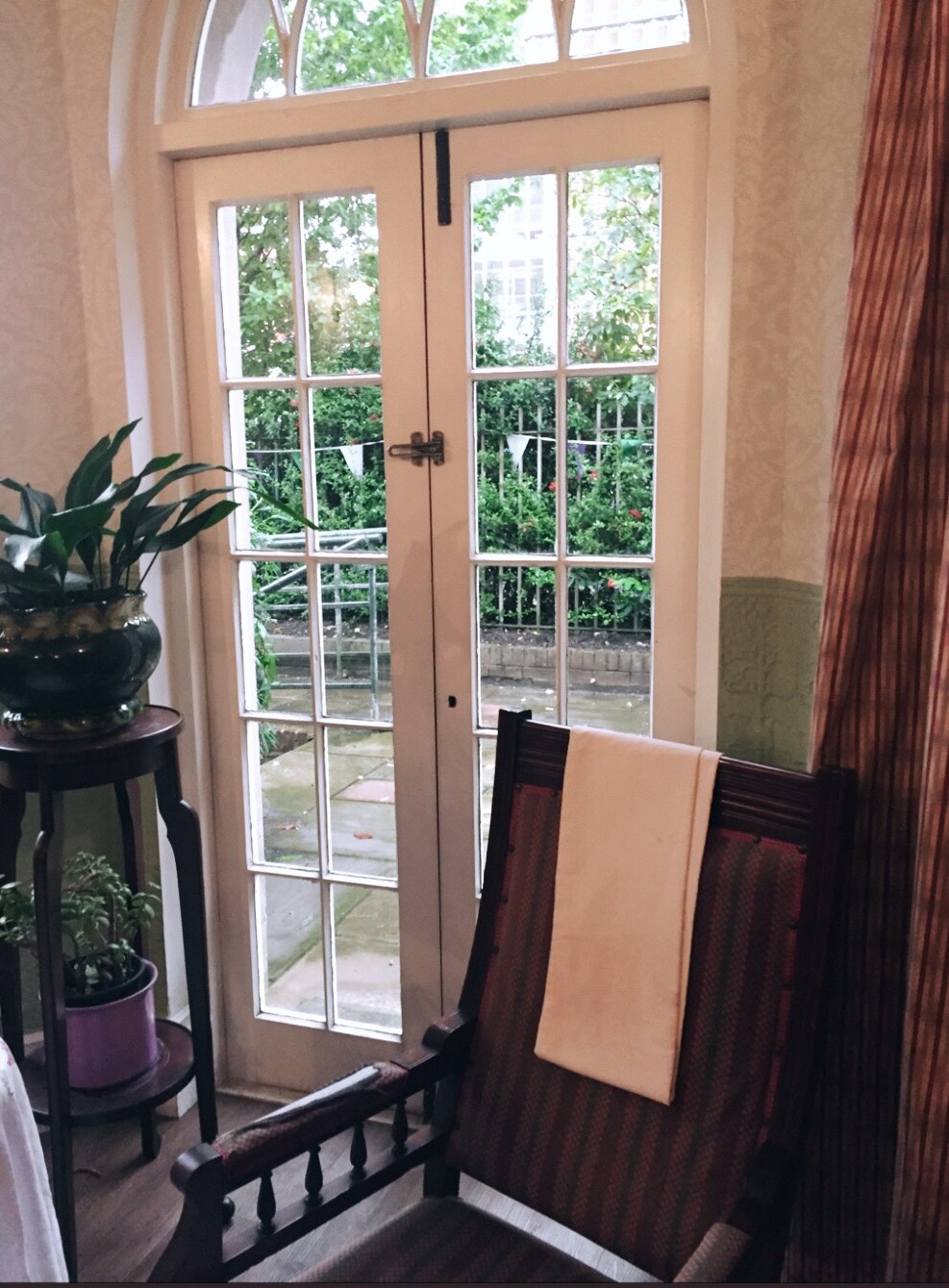 Pankhurst Centre in Manchester